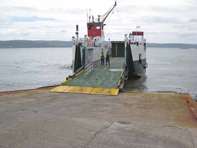 The Gigha ferry Operated by Calmac. In view of how little traffic was using the ferry when we crossed, must be heavily subsidised.